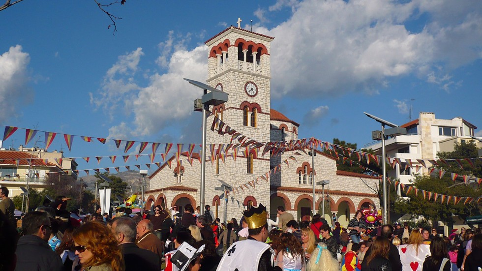 The above picture depicts a celebration gathering of Vrilissia residents at the central Analipseos Square.